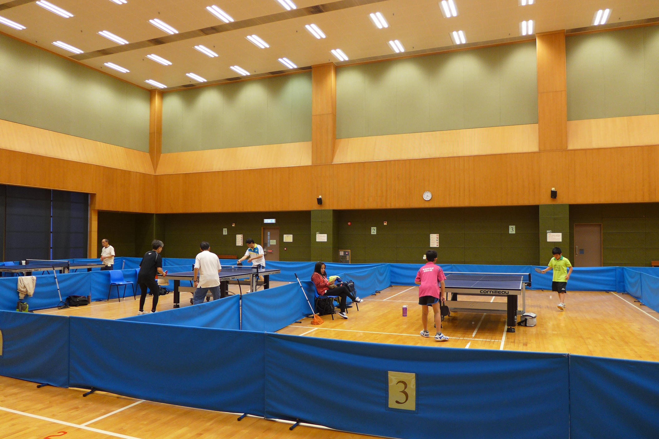 Tin Shui Sports Centre Table Tennis Room